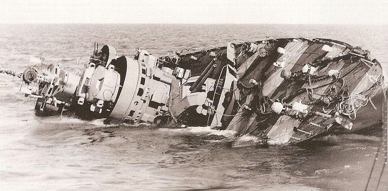 Italian destroyer Libeccio sinking